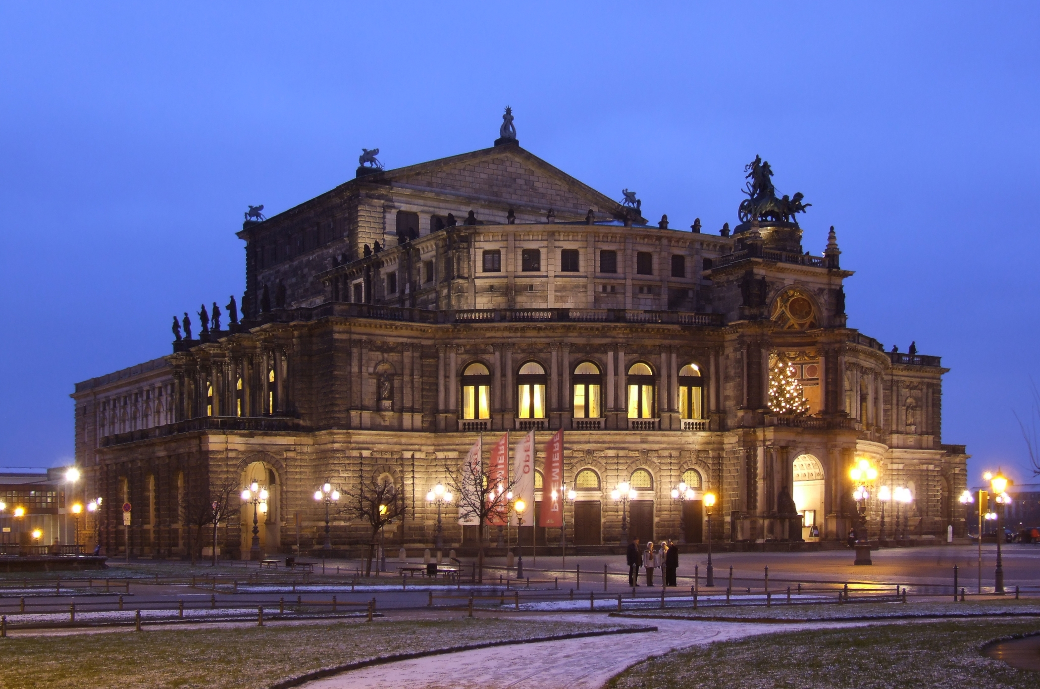 Semperoper (Dresden) by night